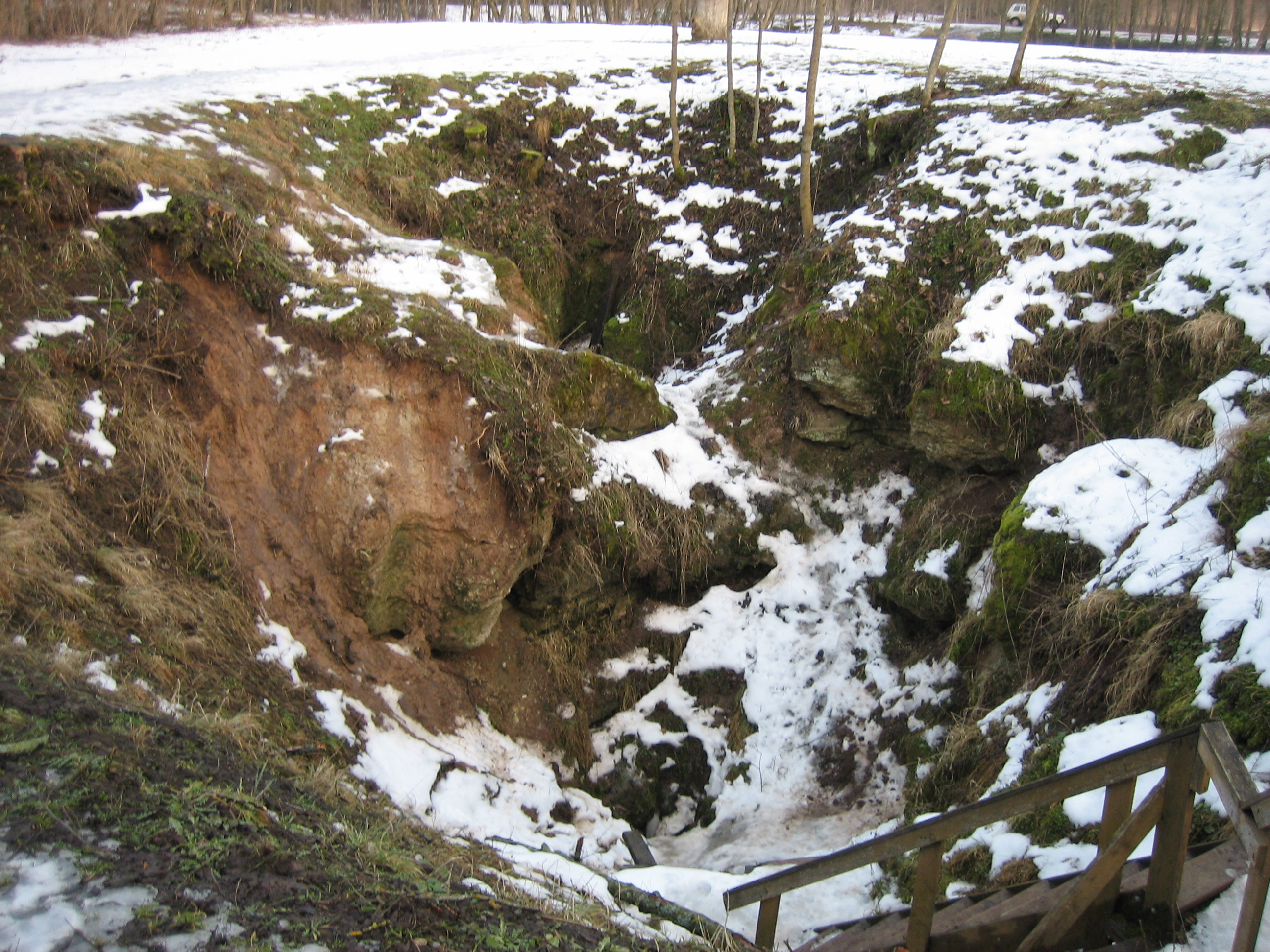 Snow-covered Karvės Ola ("Cow's Cave"), sinkholes and caves in Biržai Regional Park, located in northern Lithuania, near its border with Latvia.